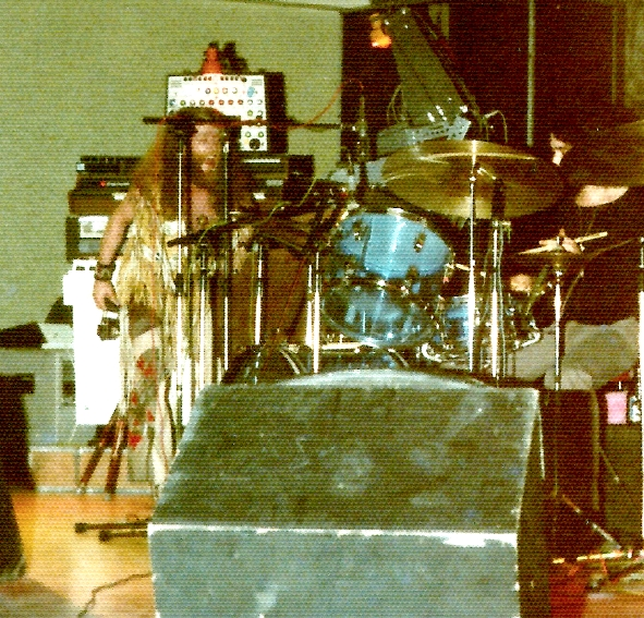 Rick van der Linden on stage in Liverpool with Trace in 1973.